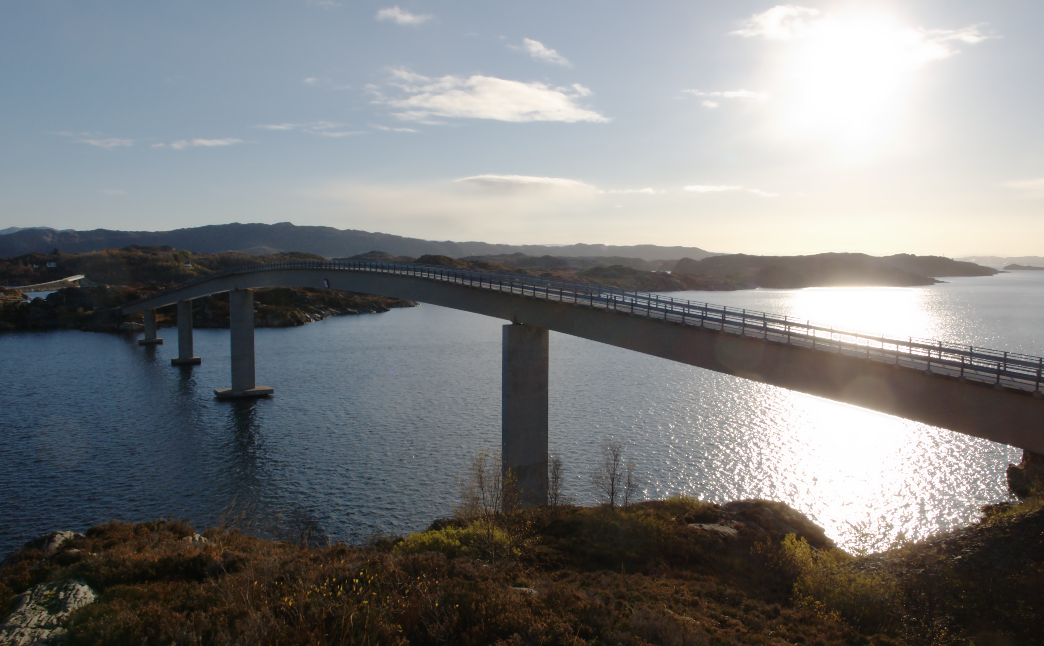 Mjømnesund bridge in Gulen municipality, Norway.